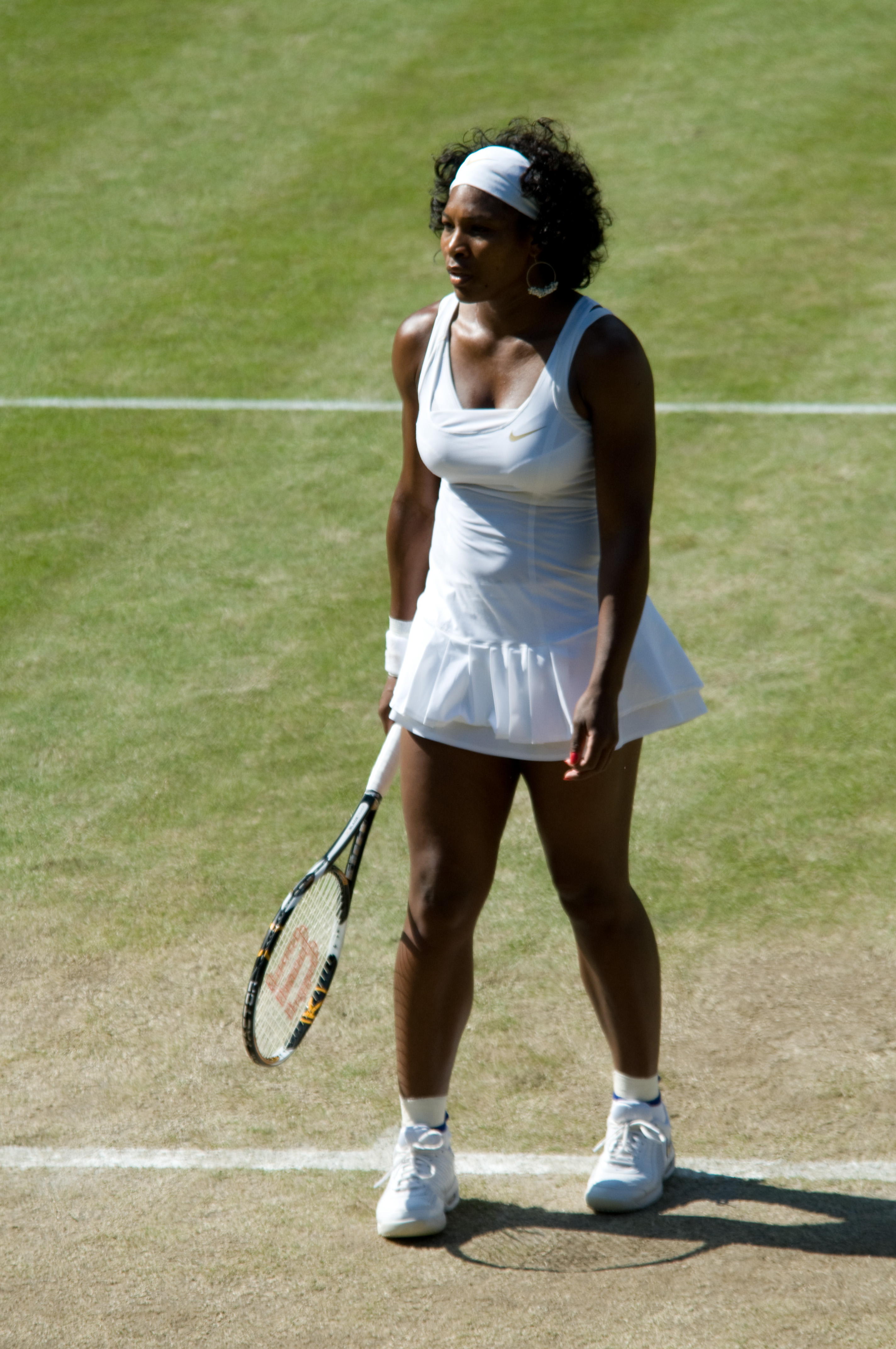 Serena Williams at the 2008 Wimbledon Championships